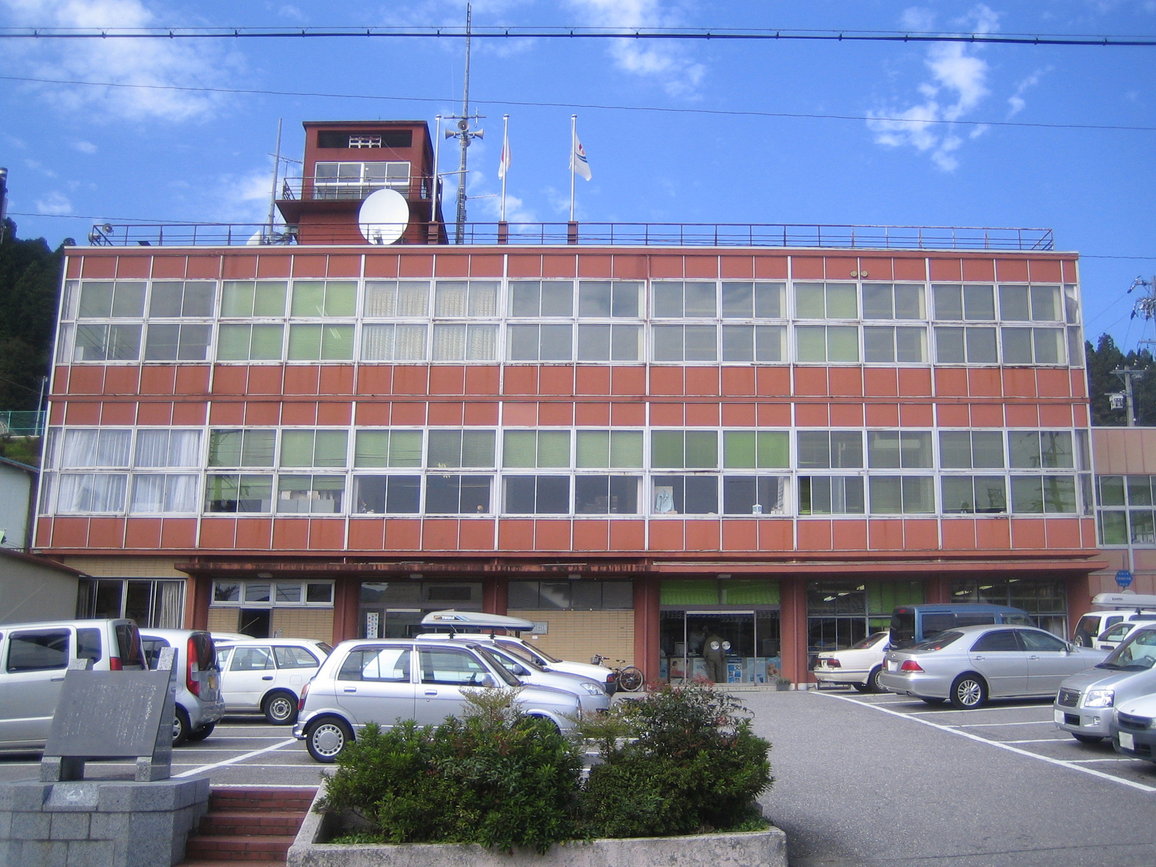 設楽町役場。愛知県設楽町 Shitara Town Office (設楽町役場), located in Shitara, Aichi, Japan